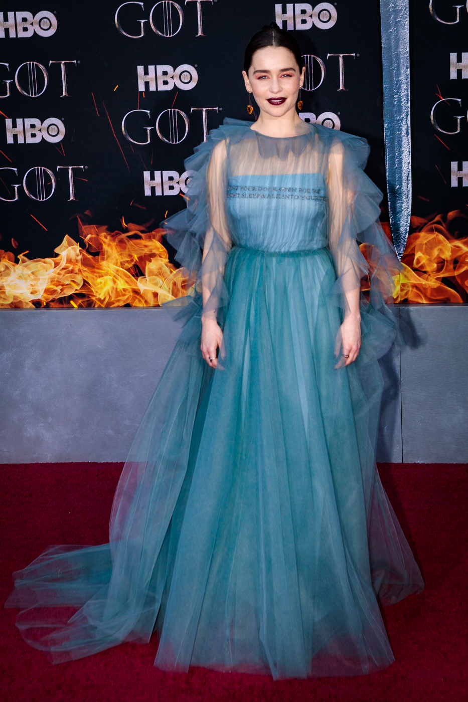 Emilia Clarke at the Game of Thrones Season 8 World Premiere at Radio City Music Hall, April 3, 2019. Photo by Sachyn Mital.